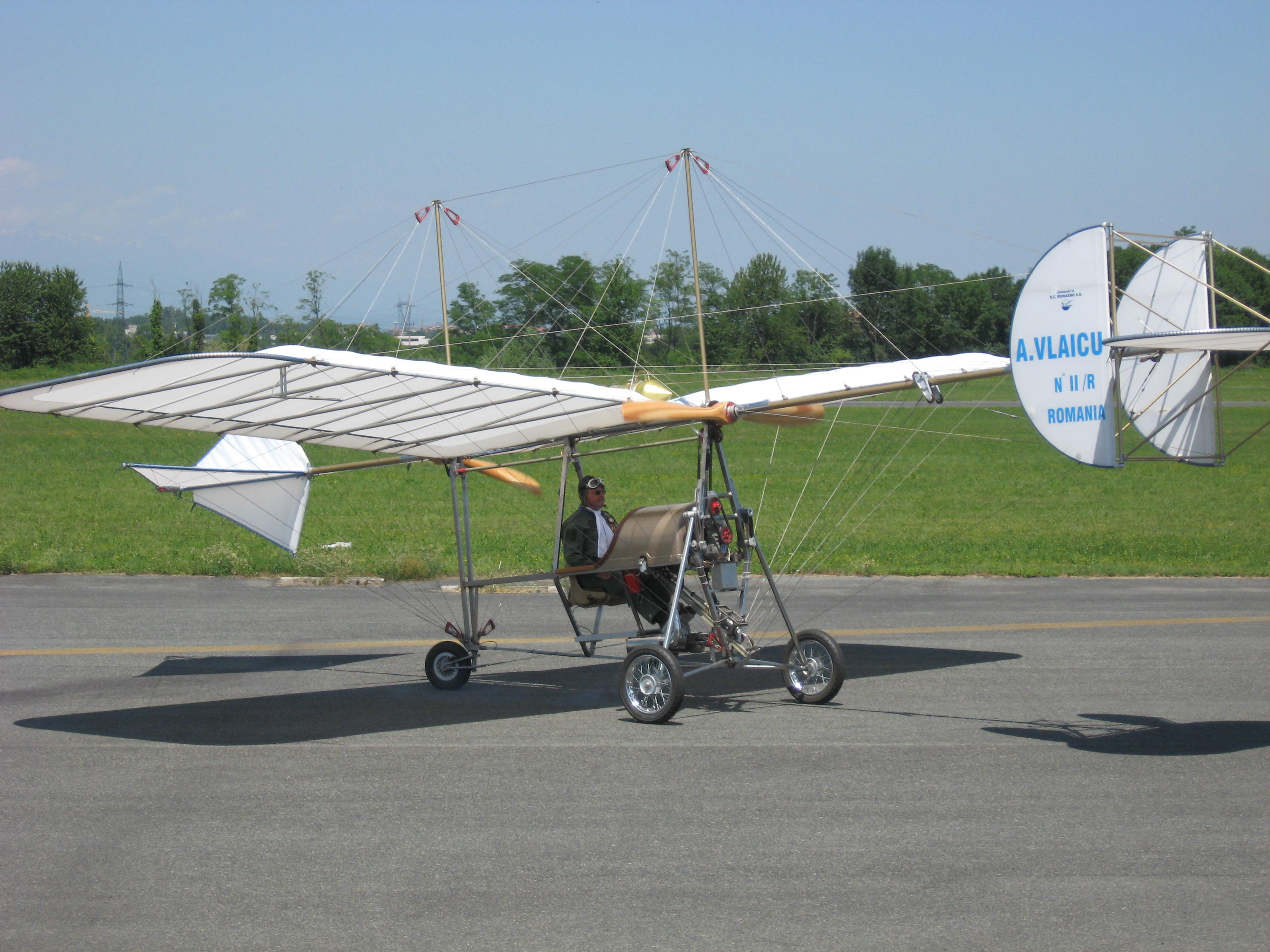 The official replica of Vlaicu II aircraft